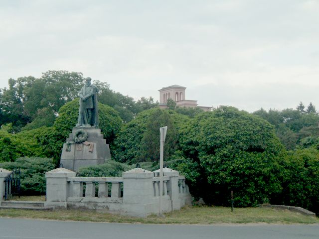 Batthyány-monument with the manor house in Ikervár, Hungary